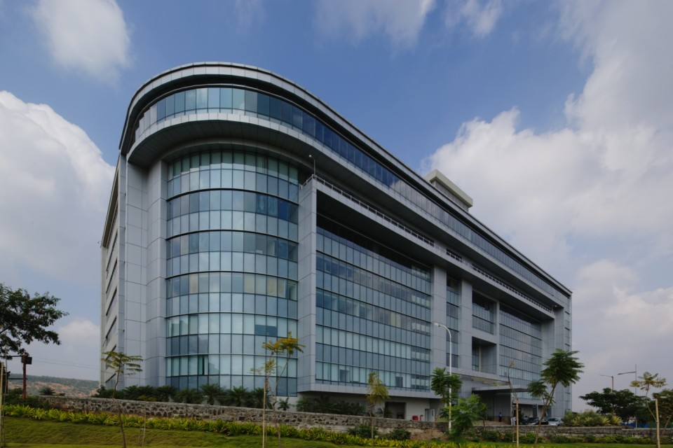 Embassy TechZone, Pune.